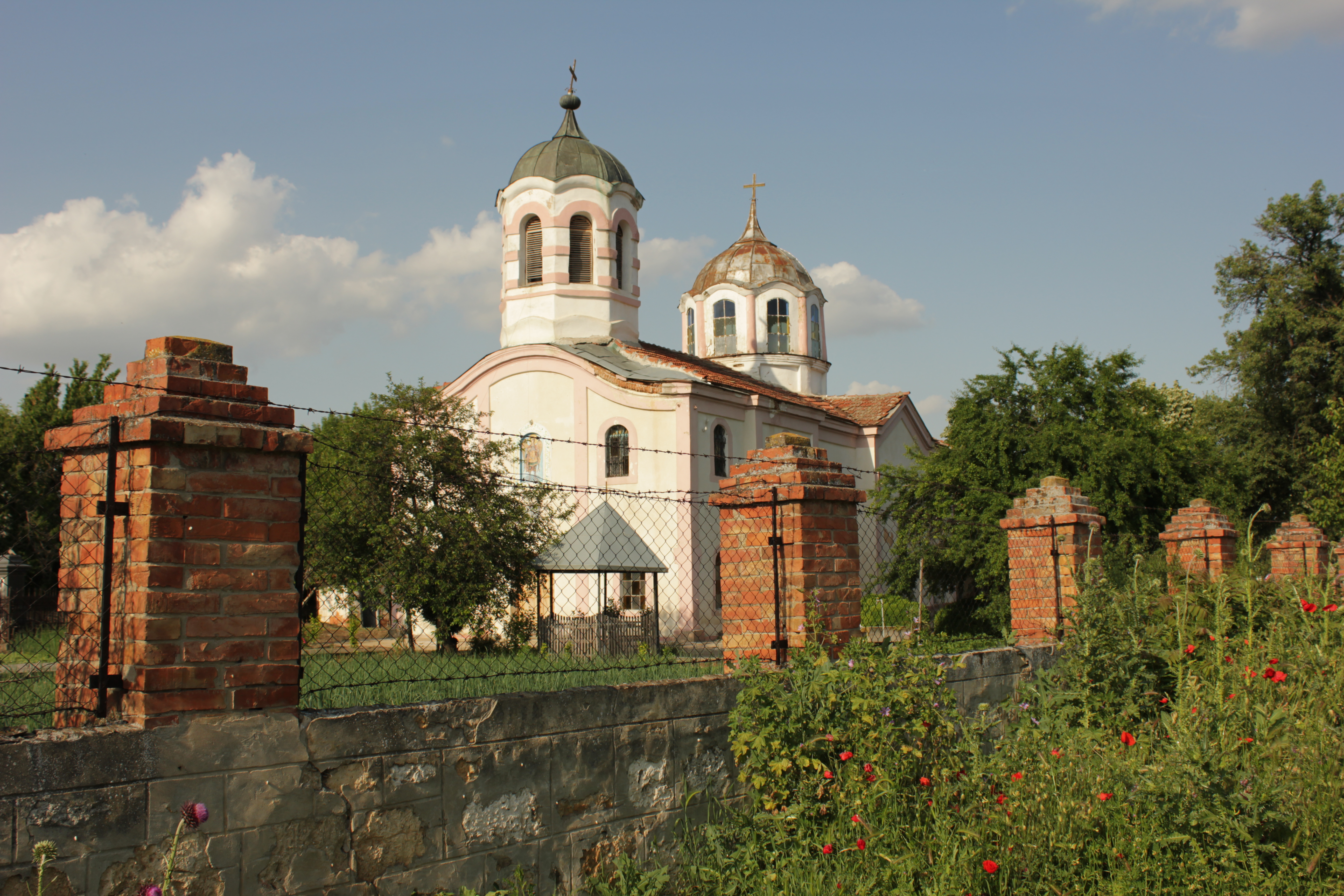 Church in Krushovene, Bulgaria